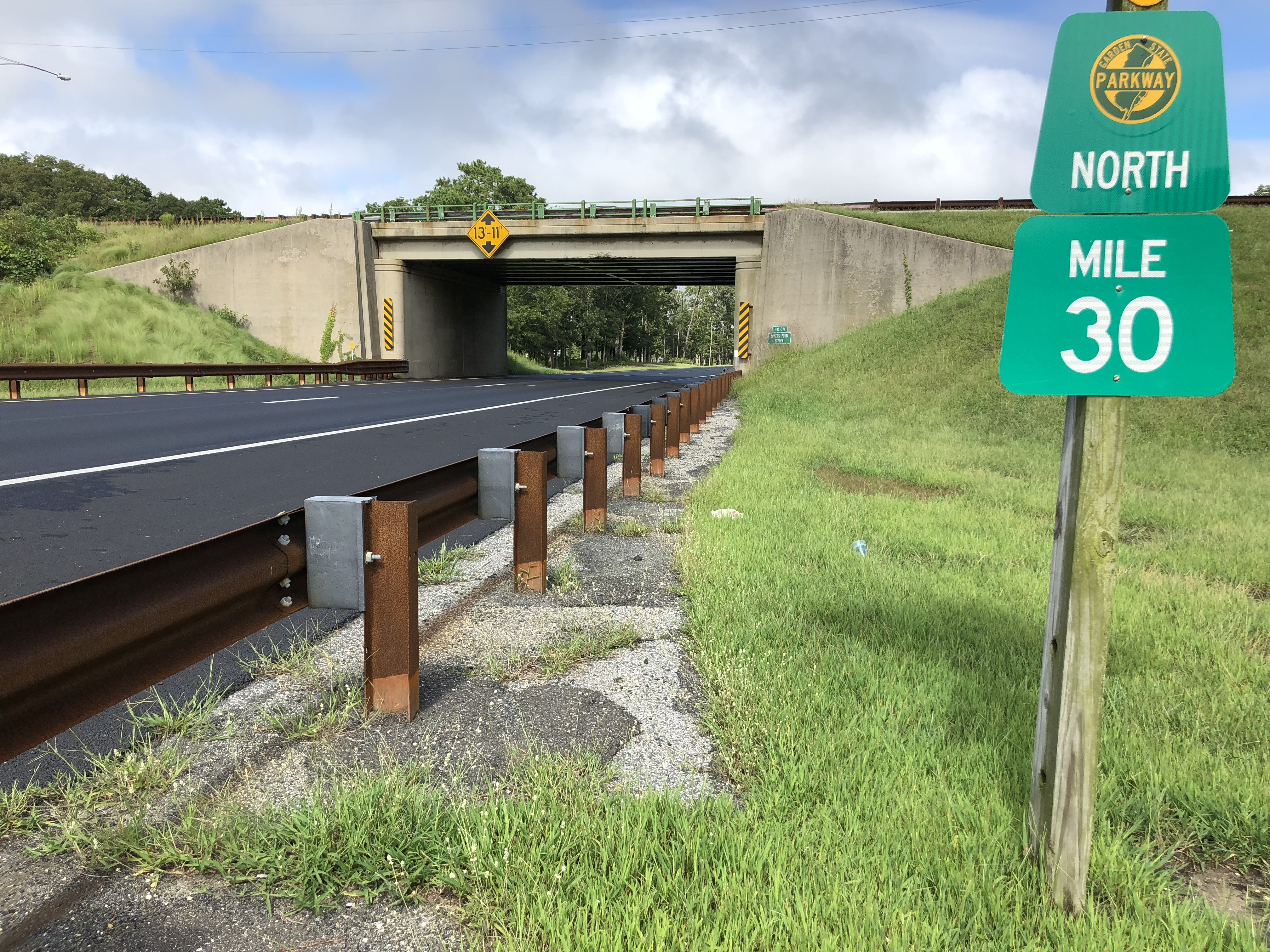 View north along New Jersey State Route 444 (Garden State Parkway) north of Exit 29 in Somers Point, Atlantic County, New Jersey